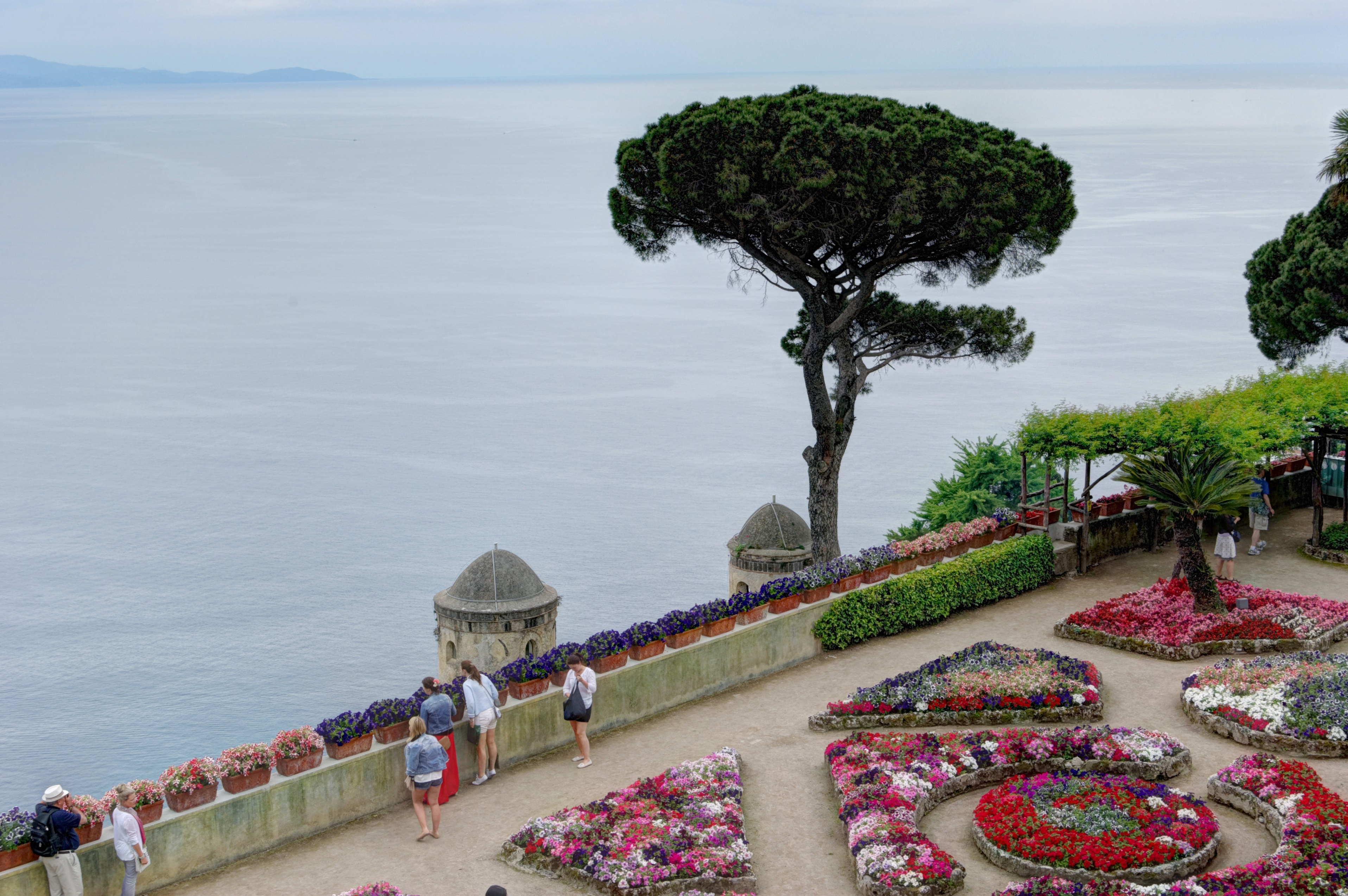 Ravello, Villa Rufolo